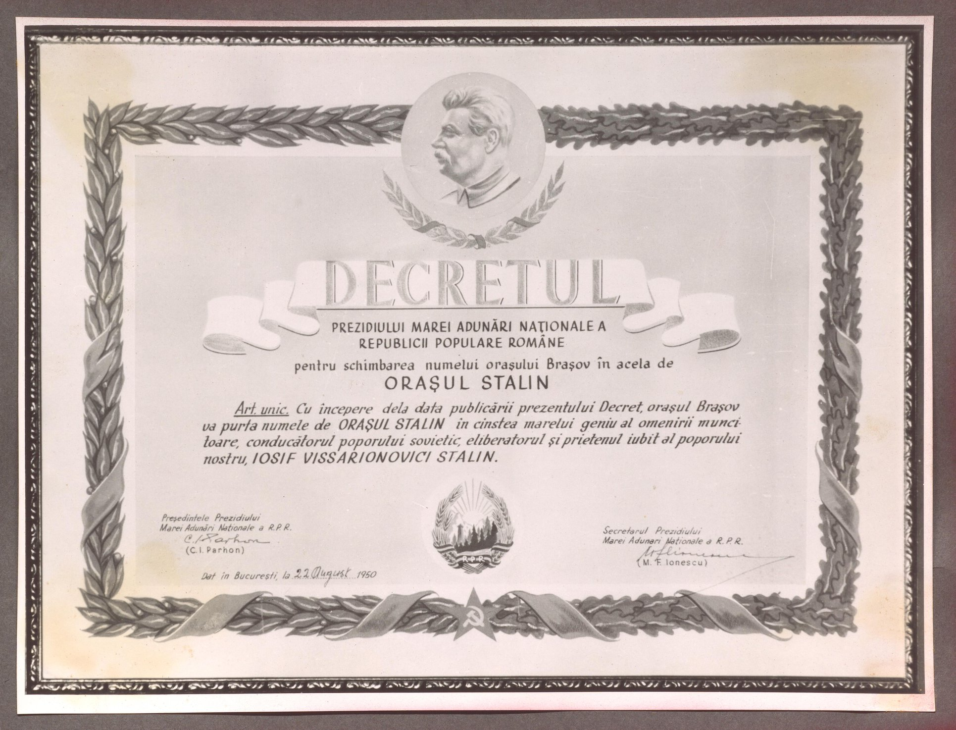 The Decree of the Great National Assembly of Romania that changed the name of the city of Brașov in ”Orașul Stalin”, 1950Română: Decretul Marii Adunării Naționale de schimbare a numelui orașului Brașov în ”Orașul Stalin”, 1950